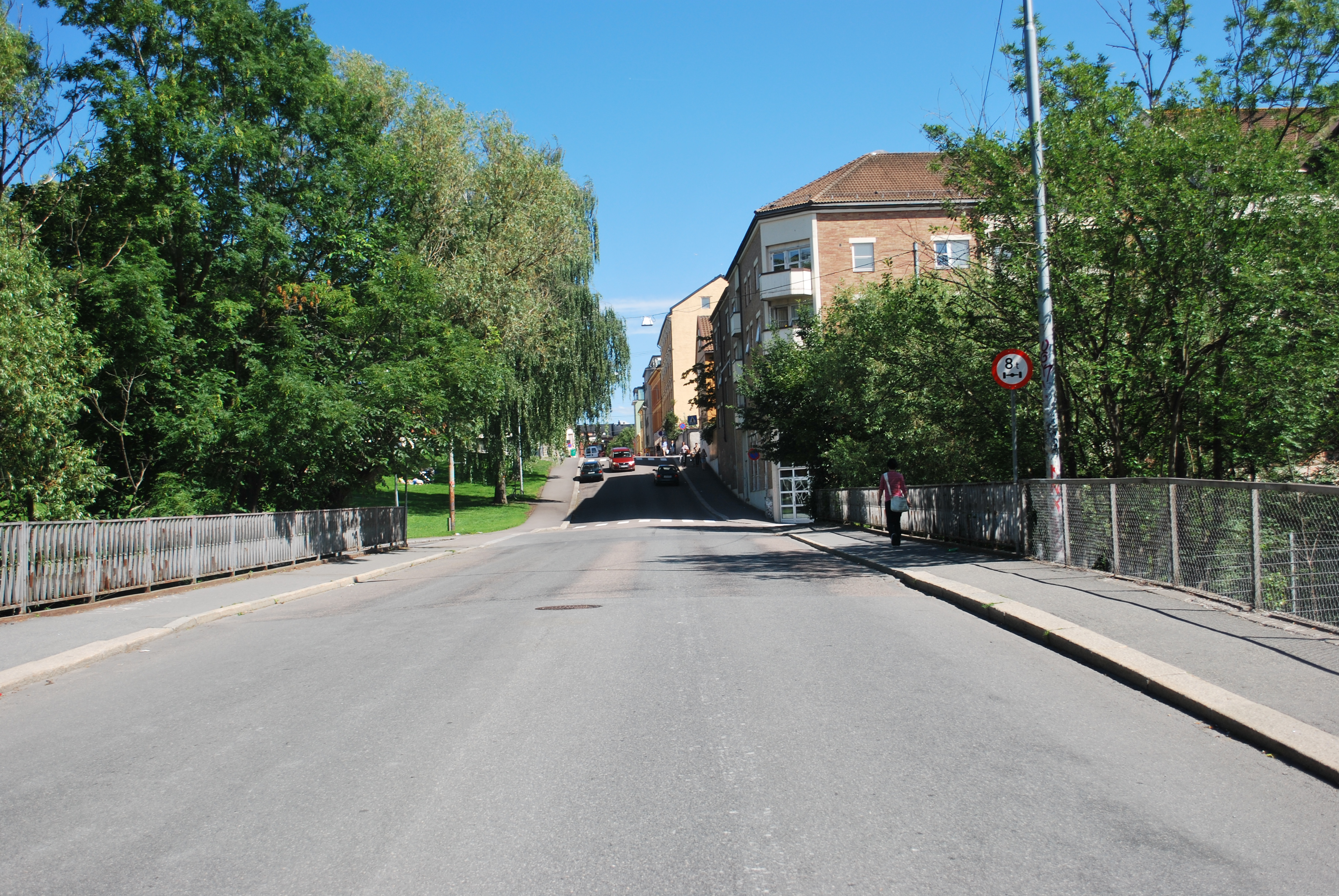 Grünerbrua, Grünerløkka, Oslo, seen towards east